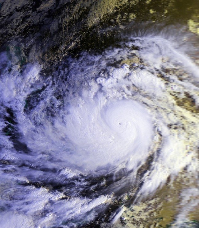 Super Typhoon Mike at peak intensity on November 11 at 2221 UTC. This image was produced from data from NOAA-10, provided by NOAA.